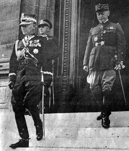 Edward Rydz-Śmigły with French Marshall Maurice Gamelin. First published in Gazeta Polska 1936.